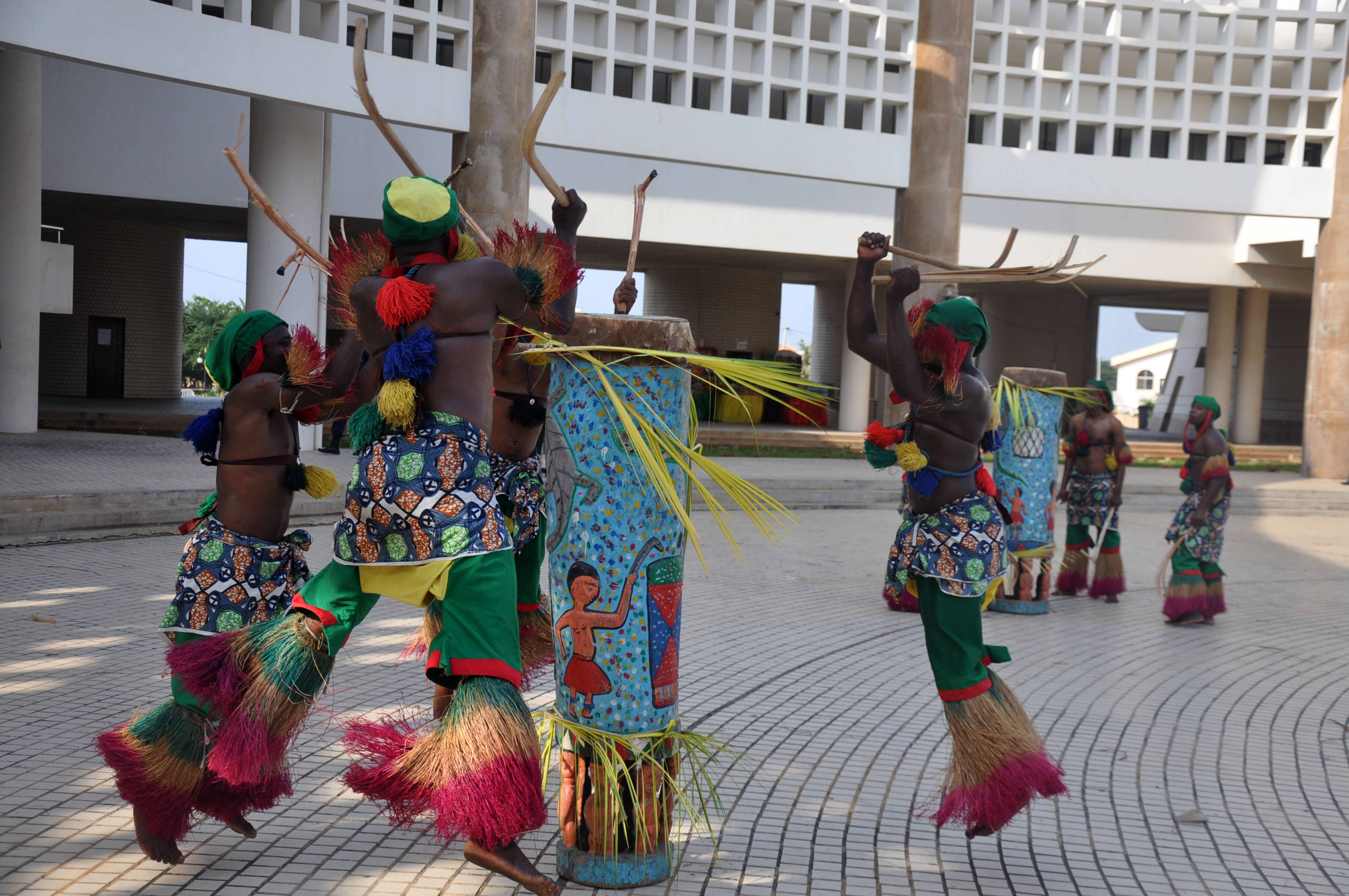 the Benin ballet troupe in cultural demobntrastion This is an image with the theme "Africa on the Move or Transport" from: Benin